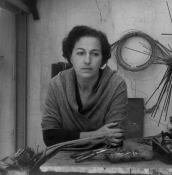 Noemí Gerstein-Artista plástica